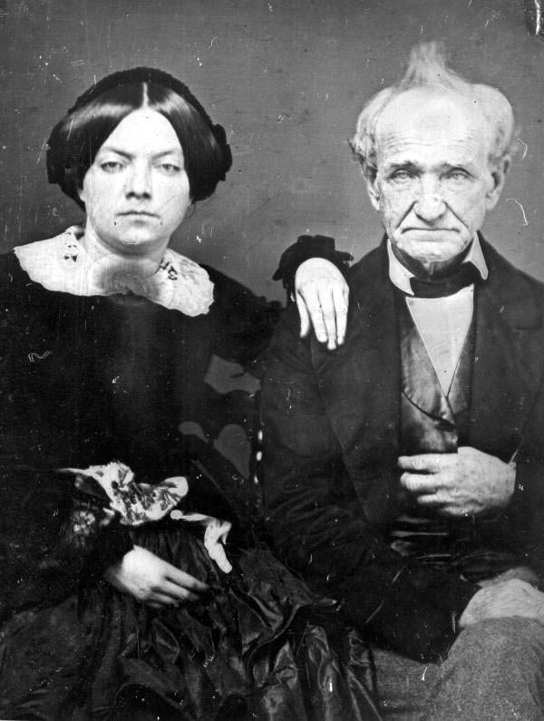 Former governor of Florida Thomas Brown with his daughter.